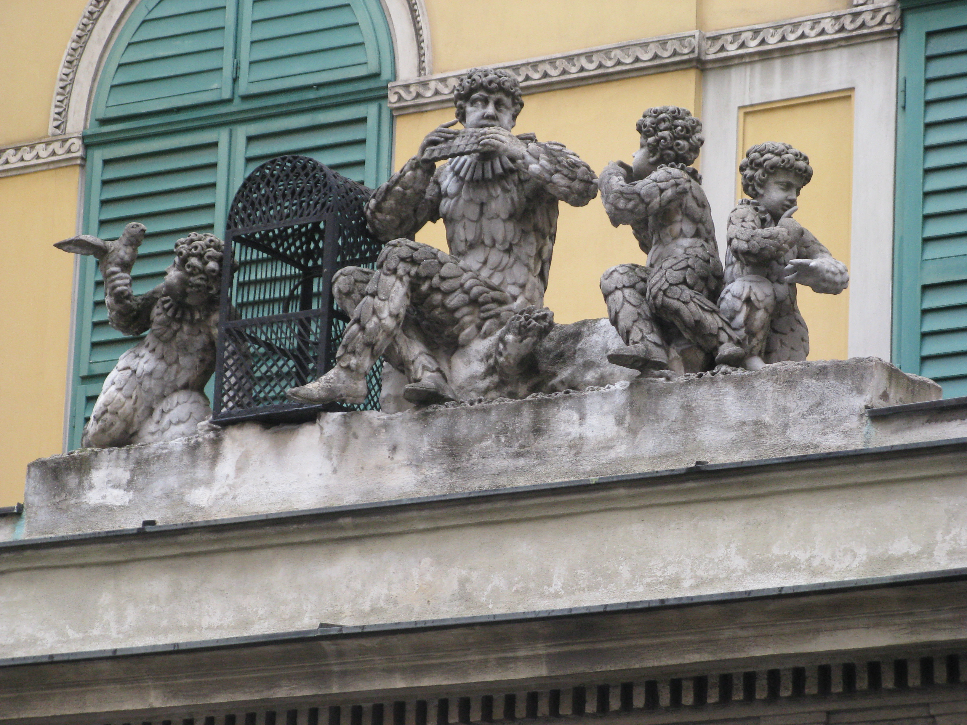 Theater an der Wien - Sculpture on the Papagenotor ("Papageno gate") is a memorial to Schikaneder, who is depicted playing the role of Papageno in Mozart's Magic Flute.